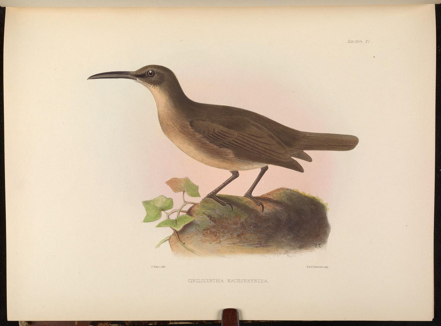 White-breasted Thrasher Ramphocinclus brachyurus